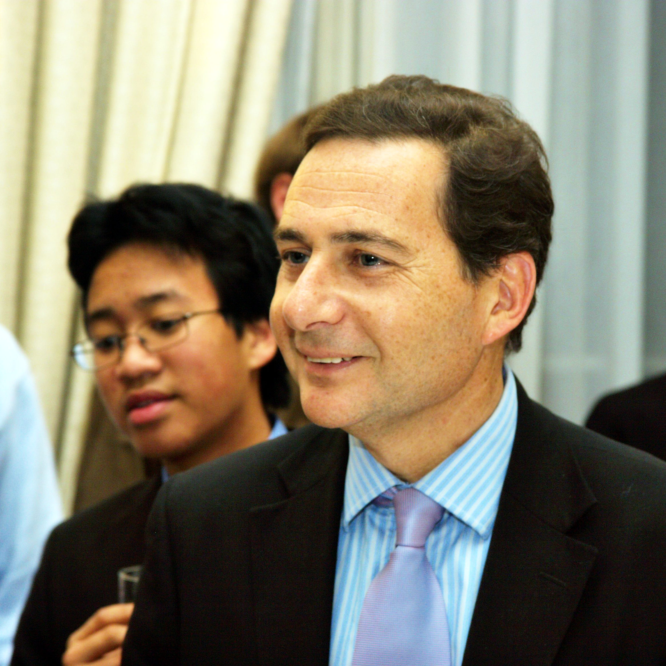 Eric Besson (France), secretary of state in charge of prospective, evaluation of public policies and the development of the e-economy, just after making Florence Devouard knight of the National order of merit